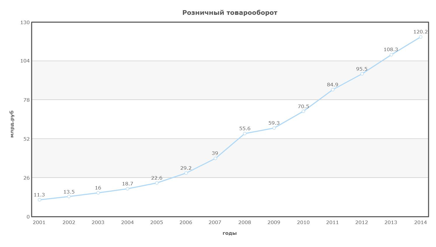 Product sales in Izhevsk in 2001–14